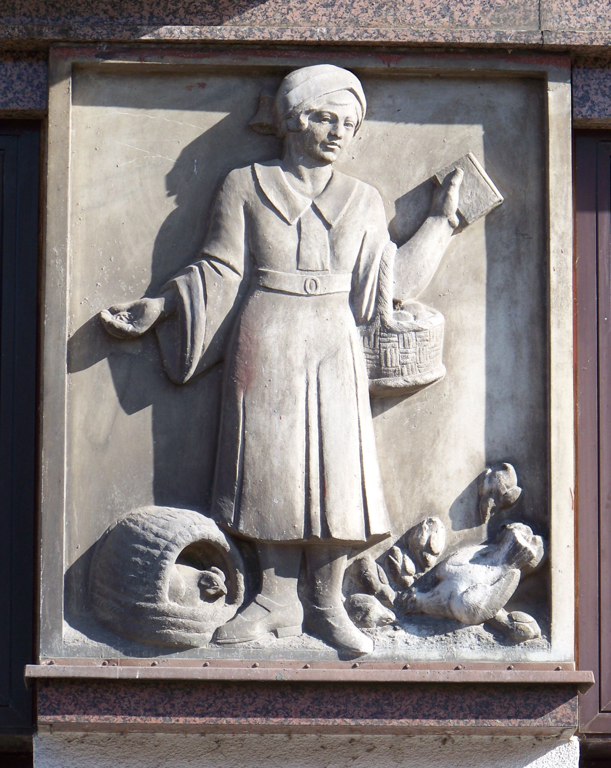 Kralupy nad Vltavou, Mělník District, Central Bohemian Region, the Czech Republic. Husova 579, a relief of Frugality on the Česká spořitelna building. - OpenStreetMap(Info)